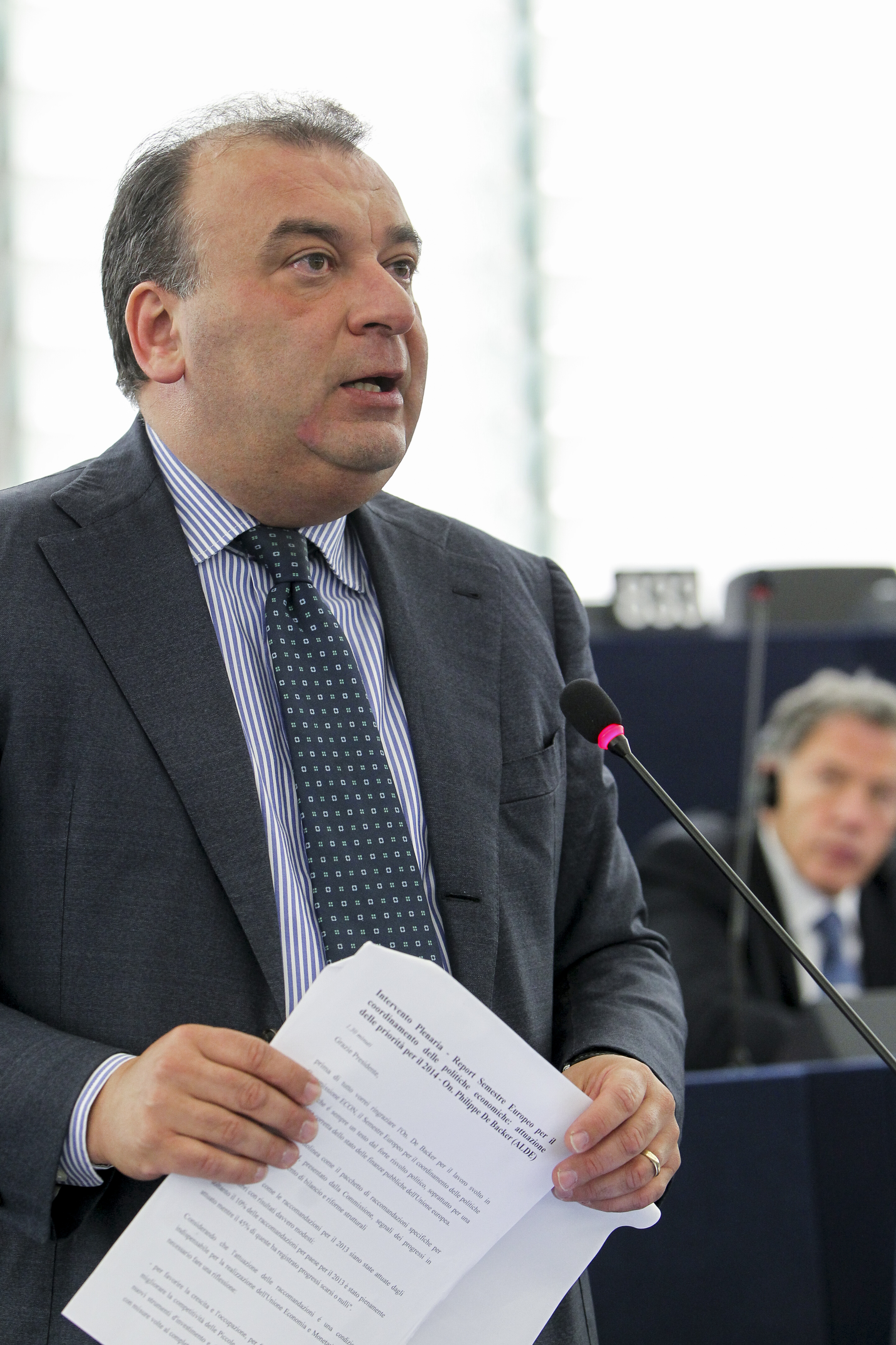 Fulvio MARTUSCIELLO in plenary session week 43 2014 in Strasbourg